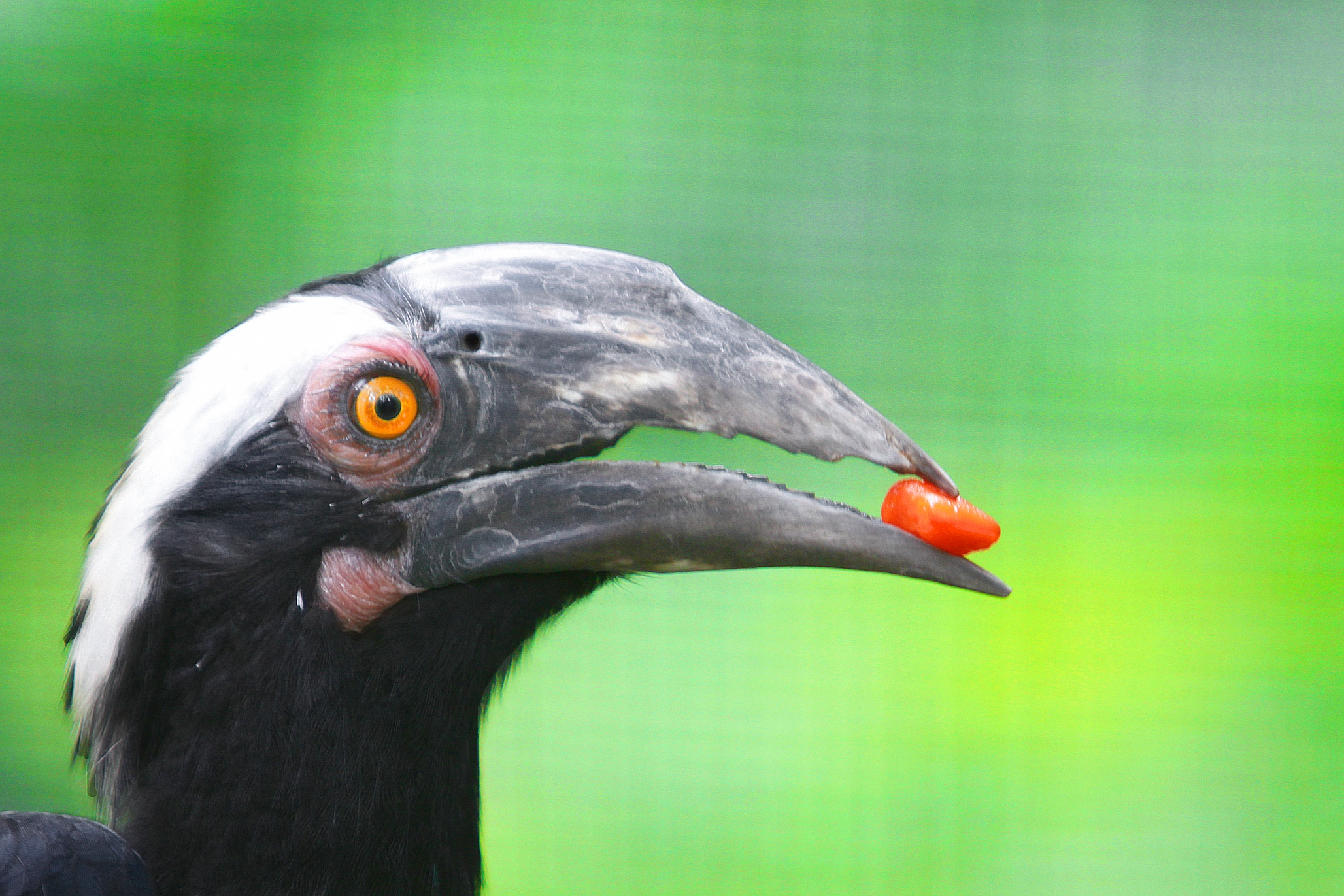 A Juvenile male Black Hornbill at Kuala Lumpur Bird Park, Malaysia.